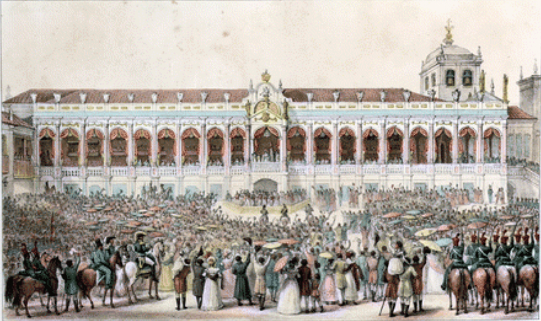 Exterior view of the acclamation of João VI as king of the United Kingdom of Portugal, Brazil and Algarves.